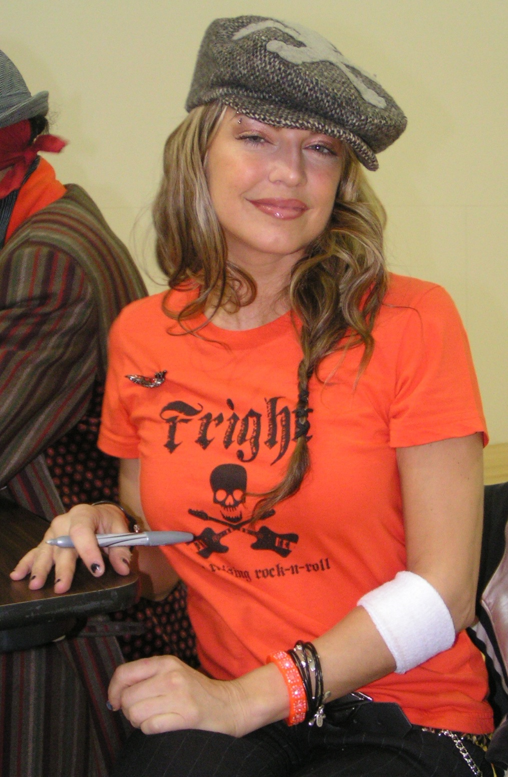 Fergie performing at a Black Eyed Peas concert at East Stroudsburg University of Pennsylvania.